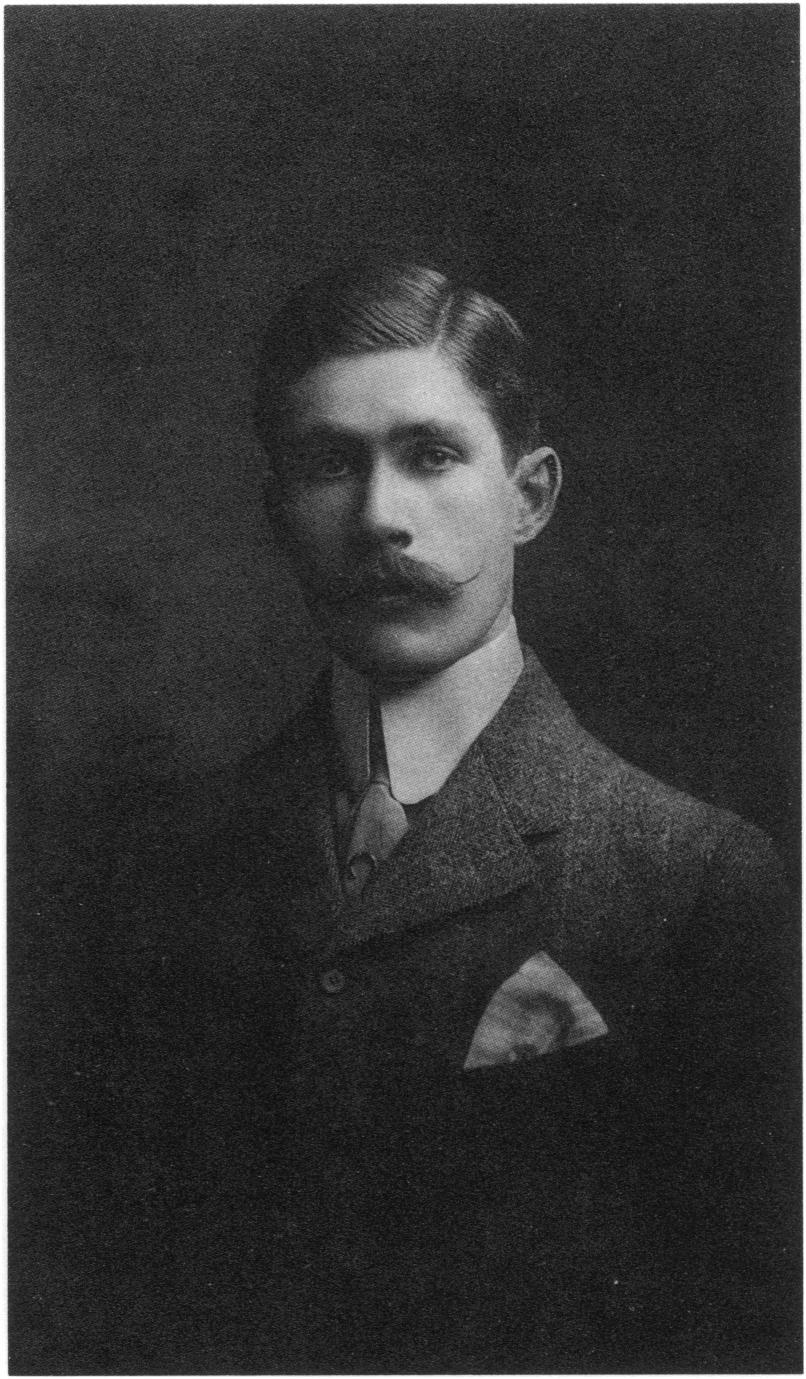 Portrait of A. E. Gallatin, I905. Gelatin silver print, II x 8 inches